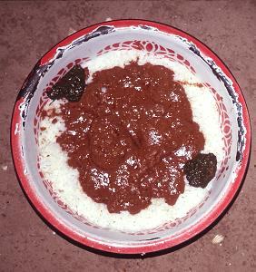 Mafe, Senegalese food made from groundnut sauce. Taken by the uploader in Senegal